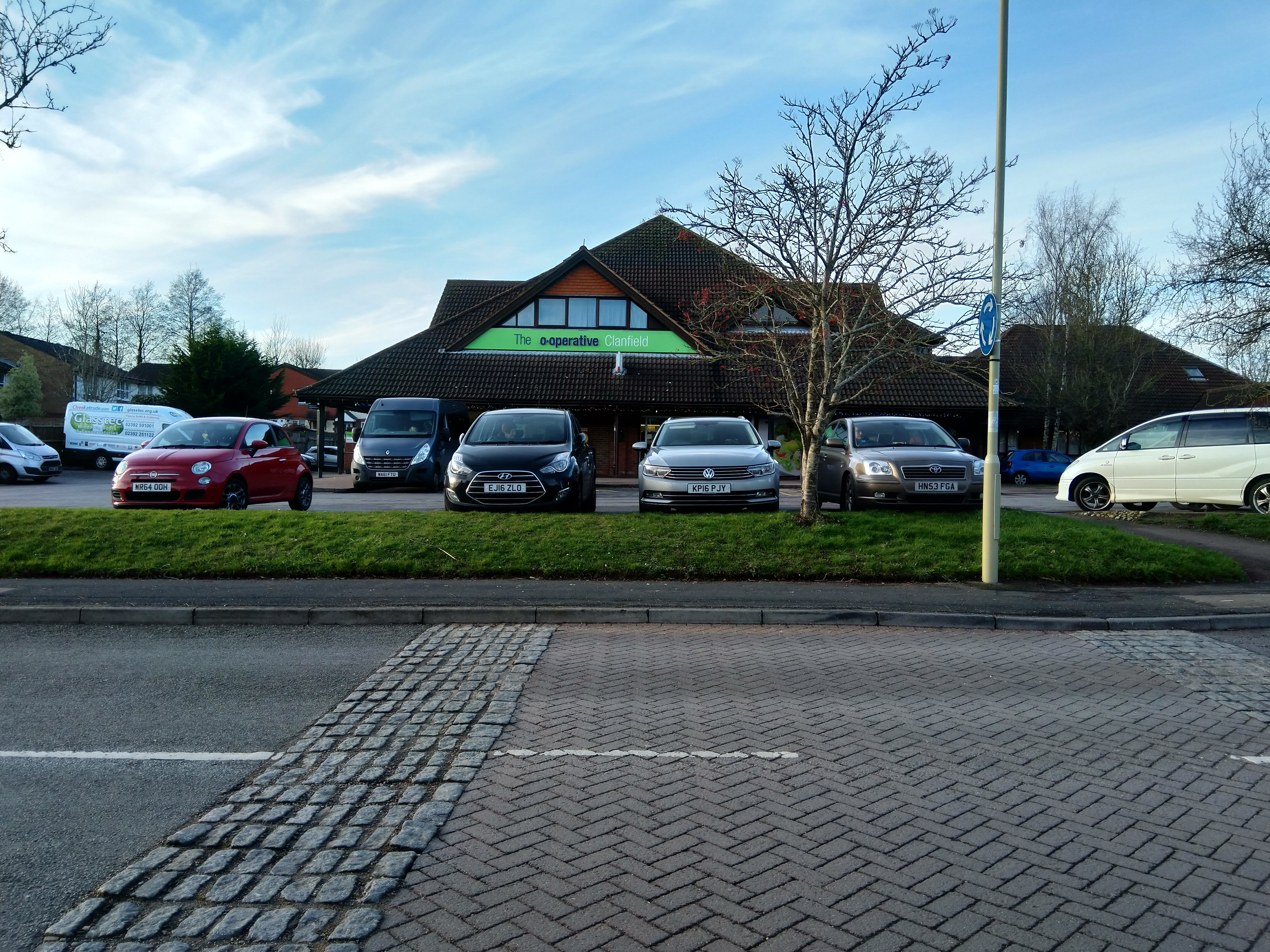 A Southern Cooperative food shop in Clanfield, Hampshire